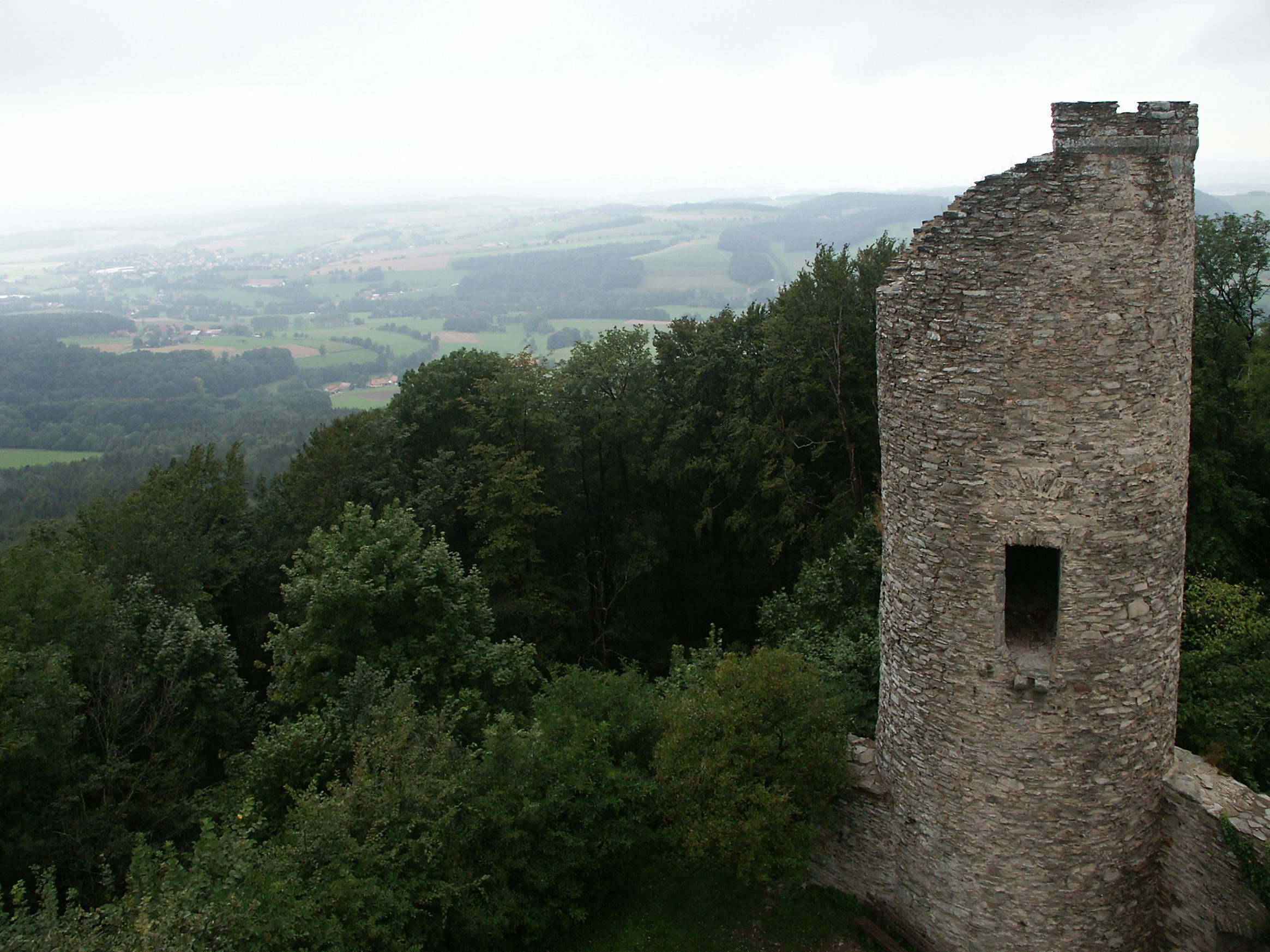 Tower of the castle Ebersburg in the Rhön mountains